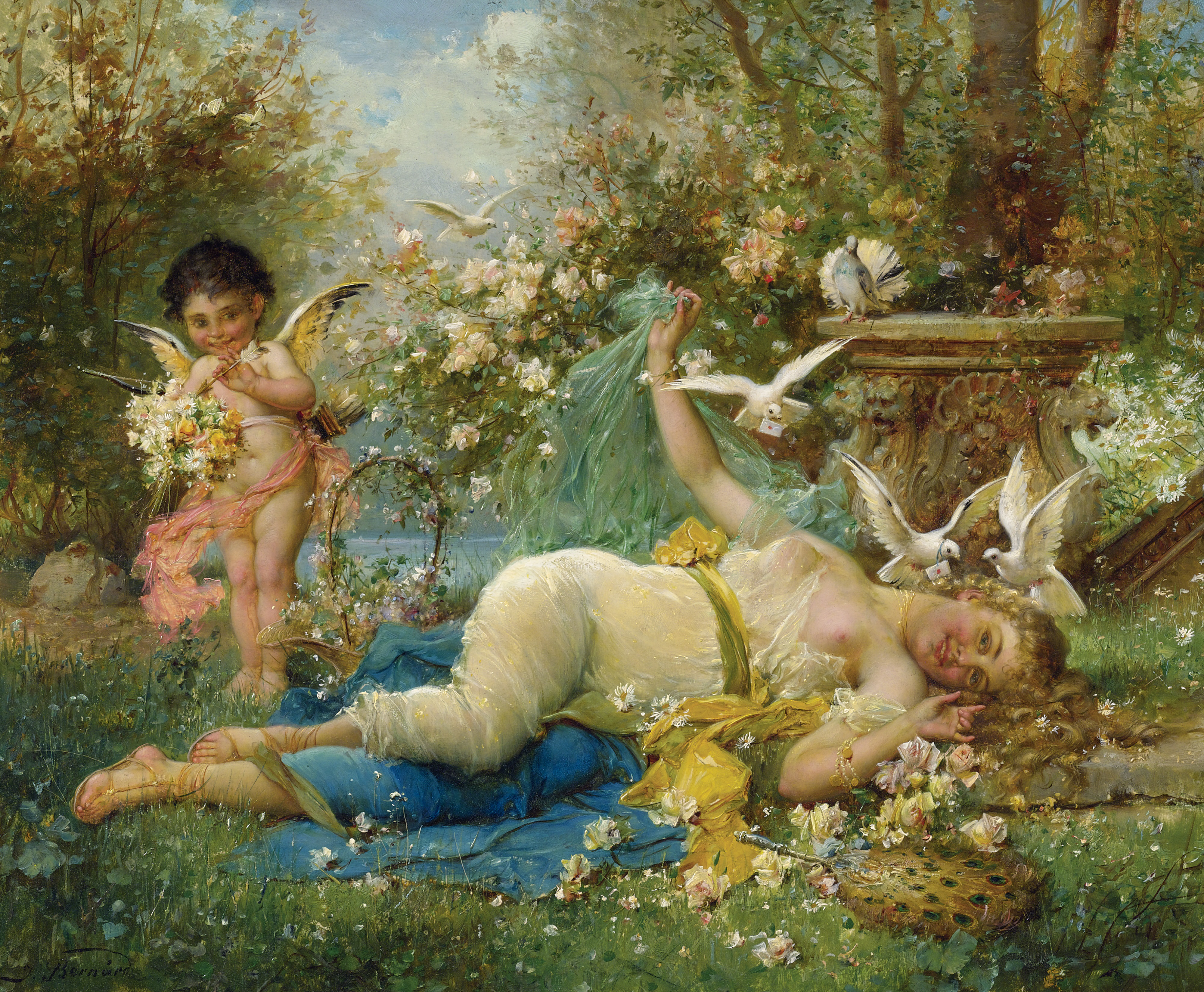 Venus and Cupid.